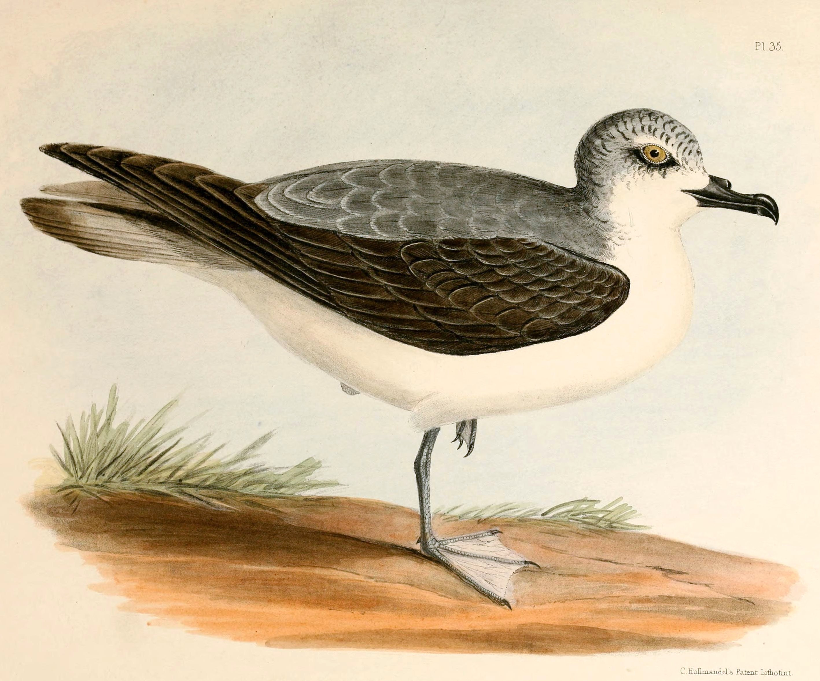 « Procellaria cookii » = Pterodroma cookii (Cook's Petrel)